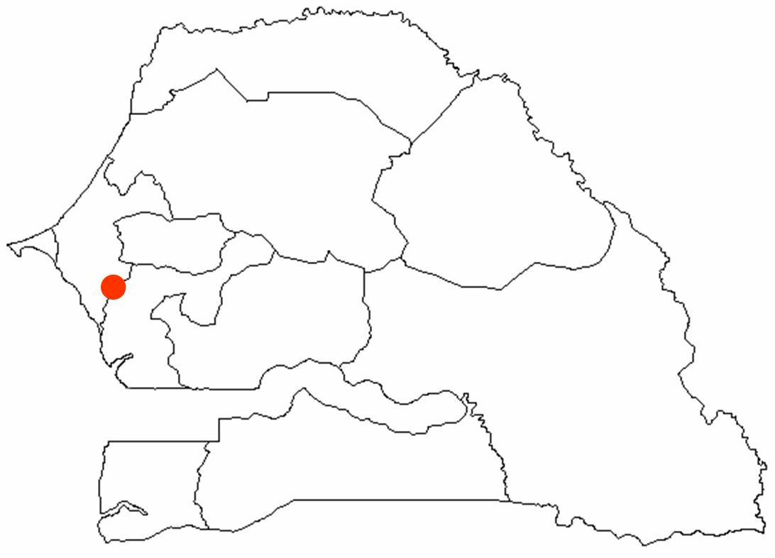 Location map of Thiadiaye, Senegal